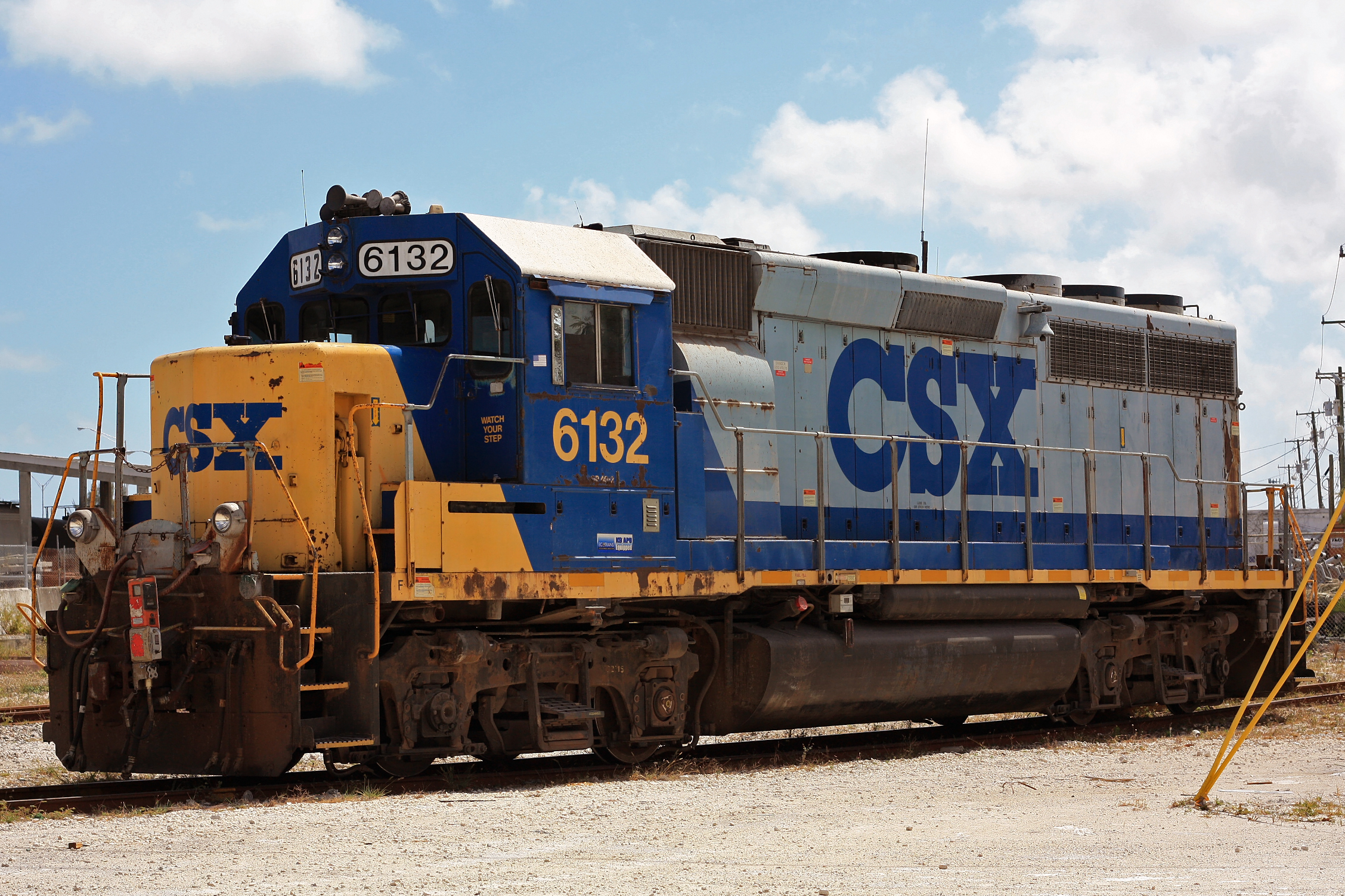 A CSX General Motors GP40-2 locomotive near the Fort Lauderdale (FL) Tri-Rail station.